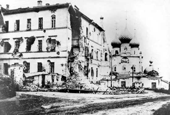 Spas na Gorodu church and main post office (now military hospital) after yaroslavl revolt of 1918.